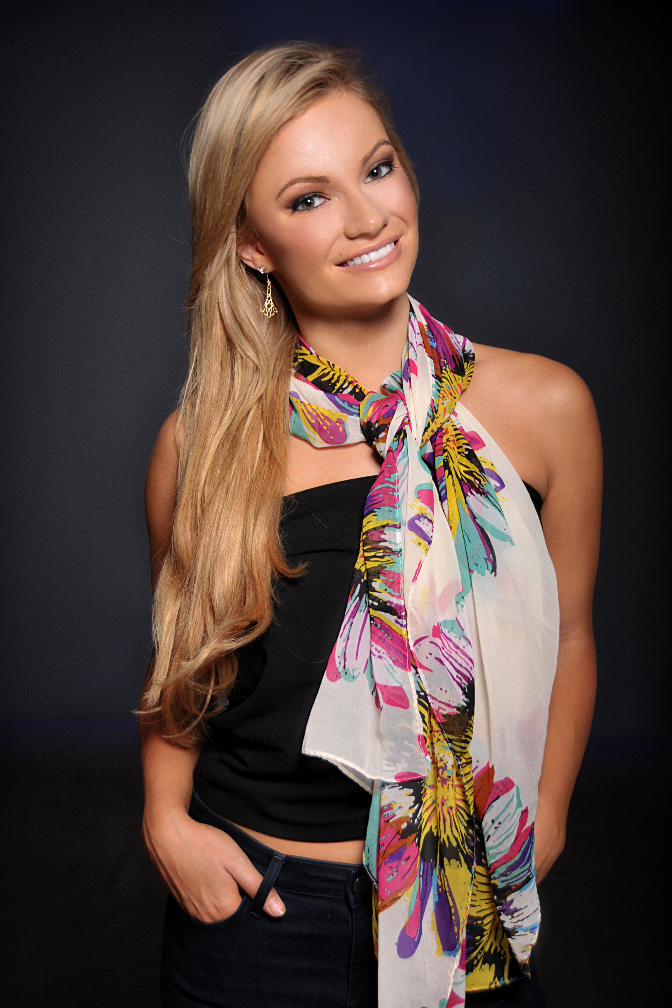 Model Caitlin O'Connor wearing a modern colorful fashion scarf - Photo buy Glenn Francis of